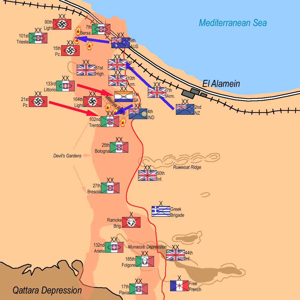 Second Battle of El Alamein: Trento Division under heavy attack by 1st South African Division and 4th Indian Division falls back. 21st Panzer Division and Littorio Armoured Division counterattack and stabilze Axis front: October 28th, 1942. 2nd New Zealand Division moves behind 9th Australian Division. October 28th, 1942. Australian 9th Division attempts to break through Axis lines west of Hill 28: 10am October 28th, 1942.